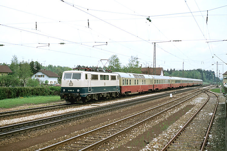 TEE 84 Mediolanum (Milano - München) with locomotive DB 111 065-9 and FS TEE carriages in Großkarolinenfeld, on 7 May 1977